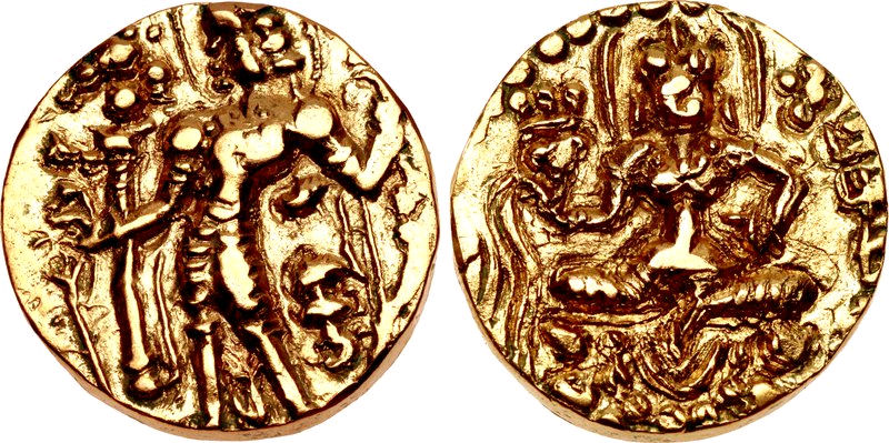 Kumaragupta II Kramaditya Circa 530-540 CE. AV Dinar (20mm, 9.43 g, 12h). Archer type, Class II. Kumaragupta, nimbate, standing left, holding arrow in right hand, left hand holding bow at top; behind to left, Garuda standard; “go” in Brahmi between legs, crescent above “ku” in Brahmi to inner right / Lakshmi, nimbate, seated facing on lotus, holding diadem in her right hand, left hand outstretched, holding lotus; tamgha to left; “śri kramaditya” in Brahmi to right.